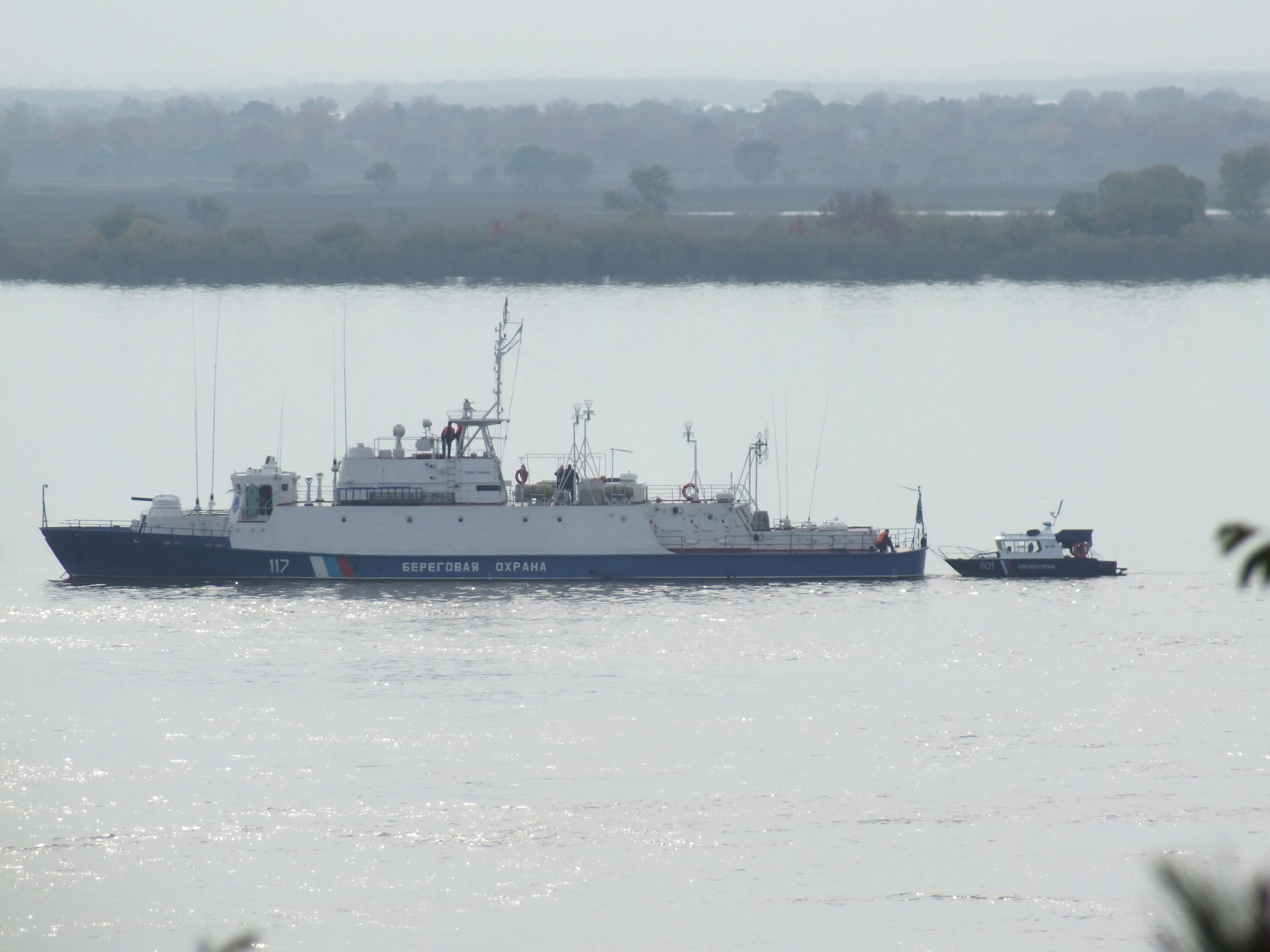 Amur Military Flotilla